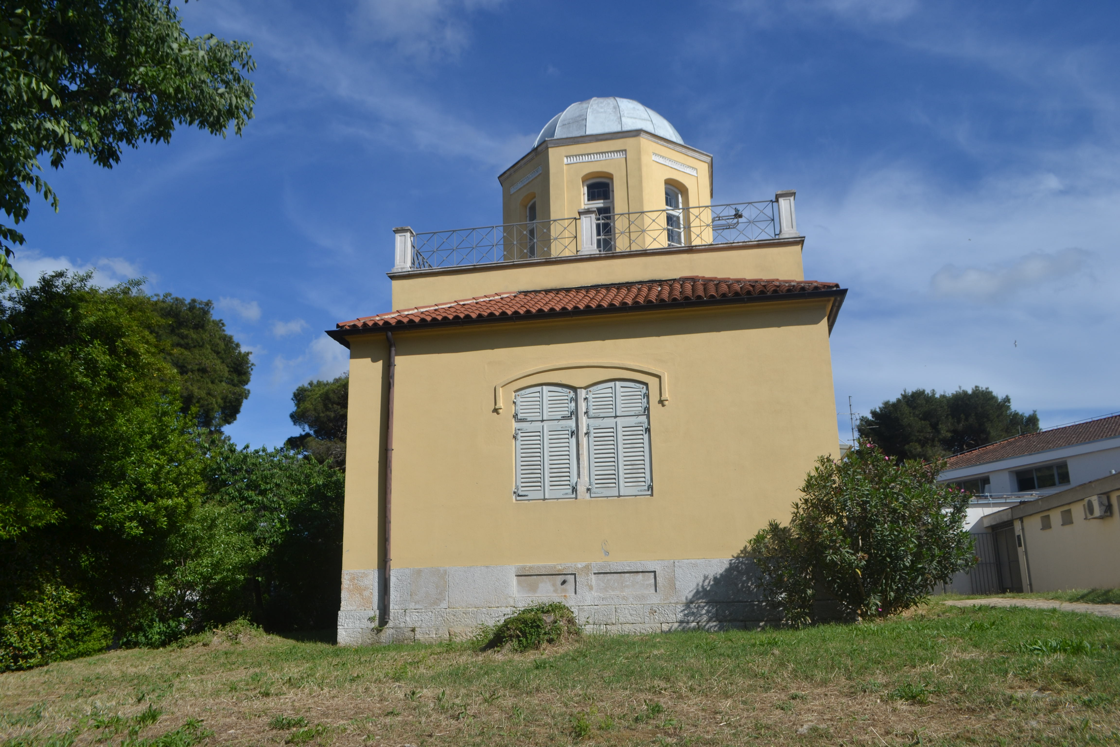 Naval Observatory in Pula.